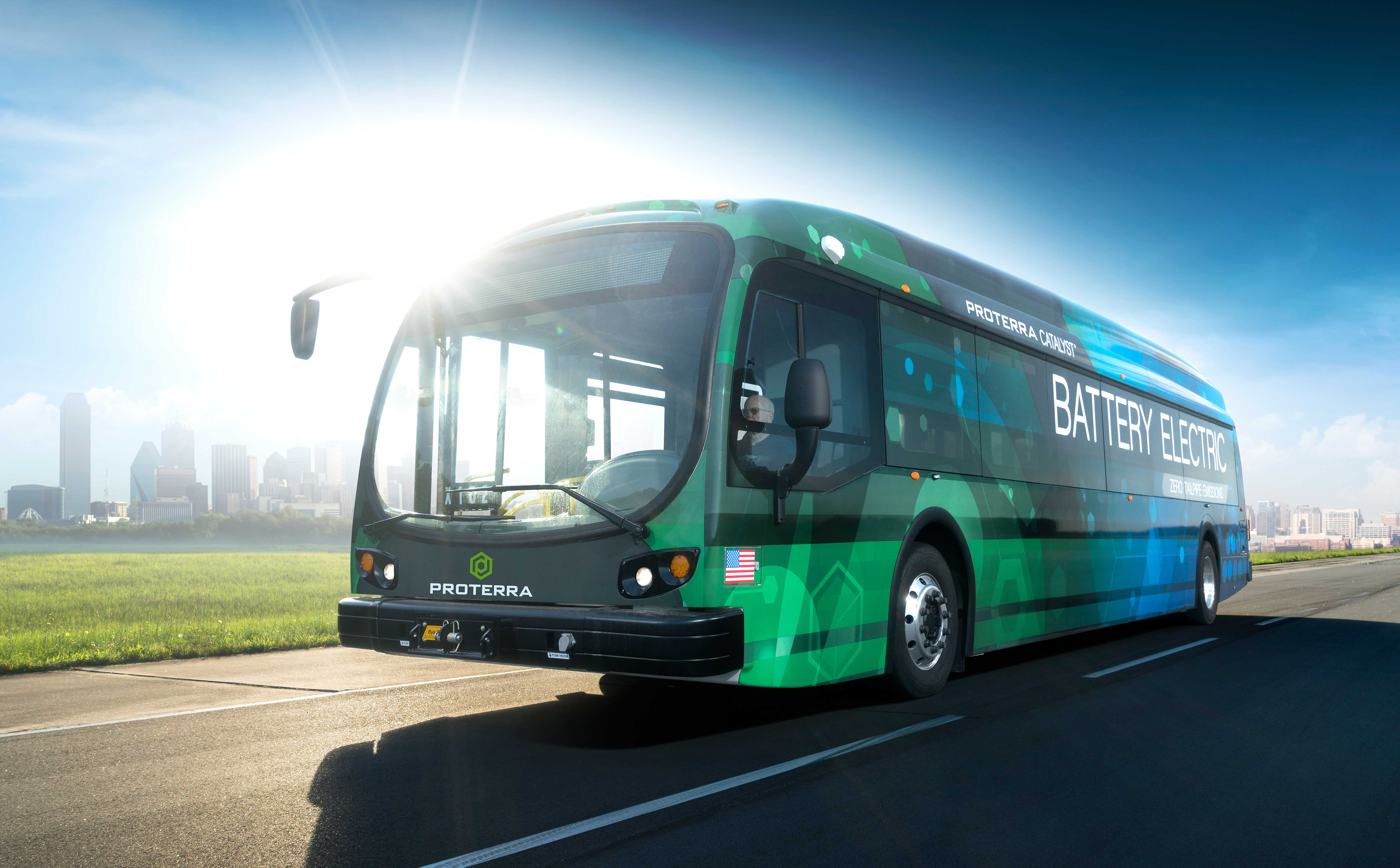 Proterra Catalyst